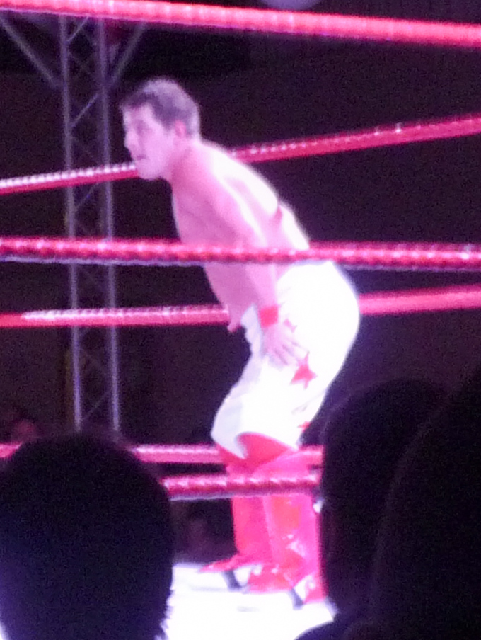 Dean Allmark at IPW's 7th Anniversary Show on November 27, 2011. Cropped from original.